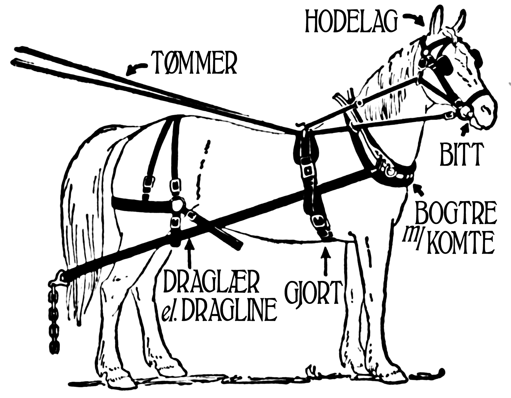 A Norwegian language version of the file Harness_(PSF).png by Pearson Scott Foresman.